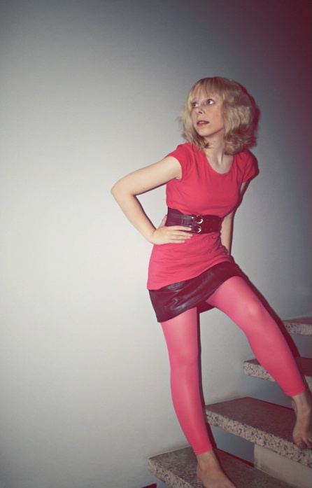 In Finland the October the 3rd is the day of supporting and spreading the knowledge about breast cancer research by dressing up in pink. It's not official ofc, but it's a fun way of spreading the news. This is the outfit I plan to wear. T-shirt and leather skirt - Lindex Leggings and belt - Gina Tricot